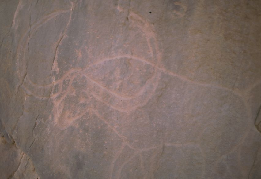 Bubalus antiquus figure.